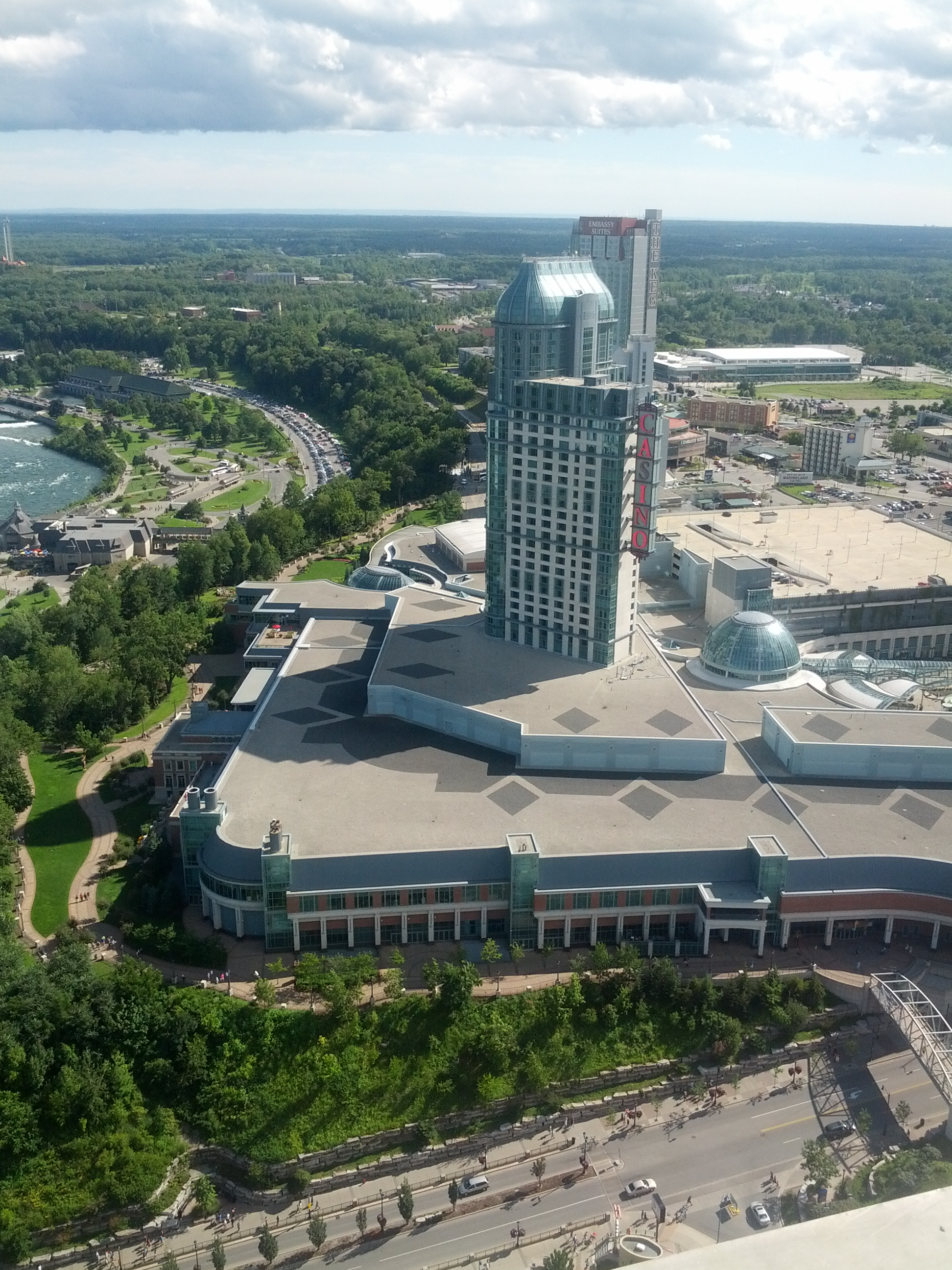 Casino in Niagara.